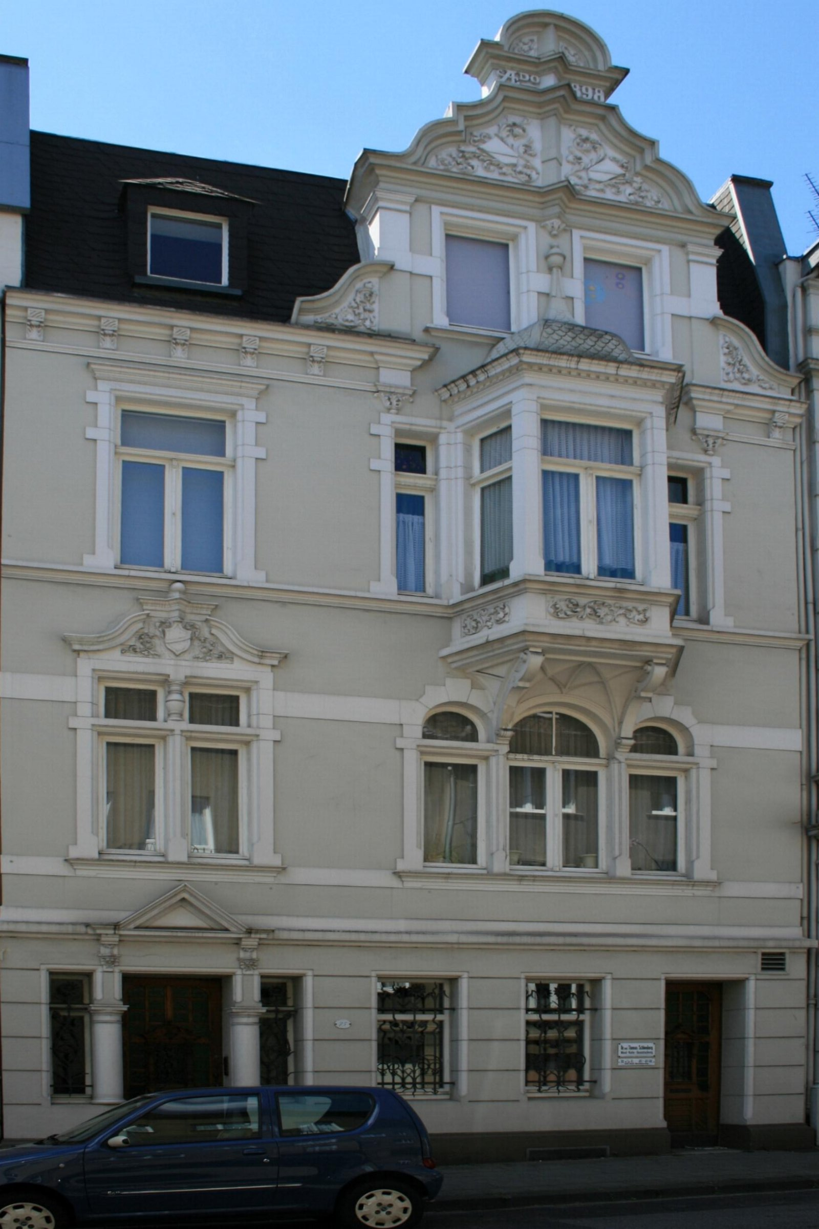 Cultural heritage monument No. Sch 046 in Mönchengladbach